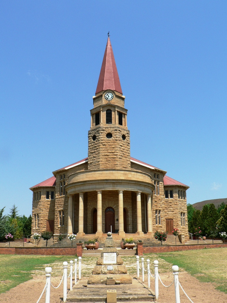 This media shows a South African Protected Site with SAHRA file reference 9/2/300/0016.